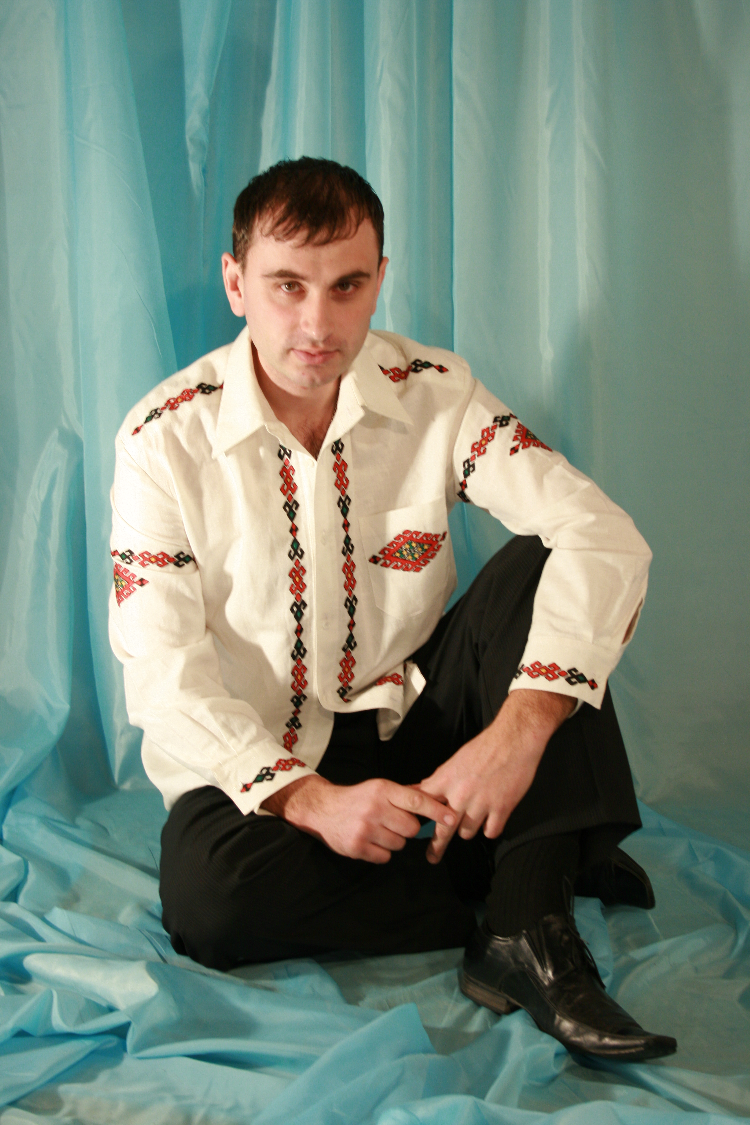 A well-known performer of erzyan songs and composer Bakich Vidya.